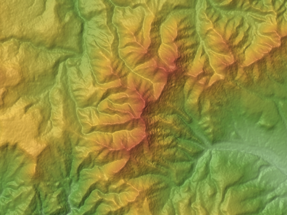 Around Mount Ishikari in Hokkaido, Japan.